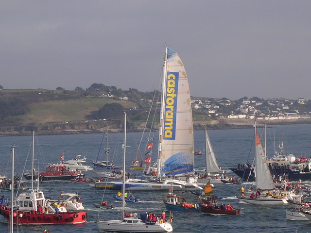 Ellen Macarthur arriving in Falmouth Ellen Macarthur ending her record-breaking single-handed round the world sail on 8 February 2005